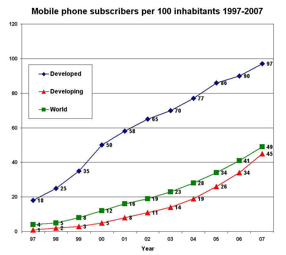 Mobile phone subscribers per 100 inhabitants 1997-2007 distinguished by developed, developing and global world, source: ITU (